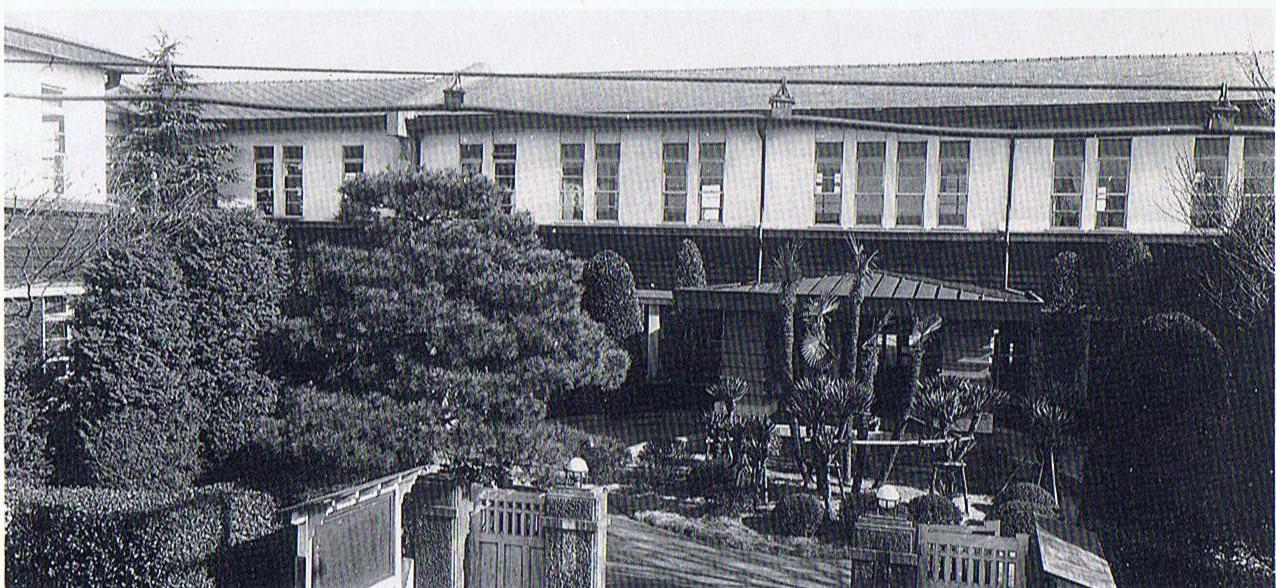 Senzoku Woman's school 1932